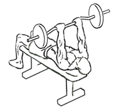 an exercise of triceps